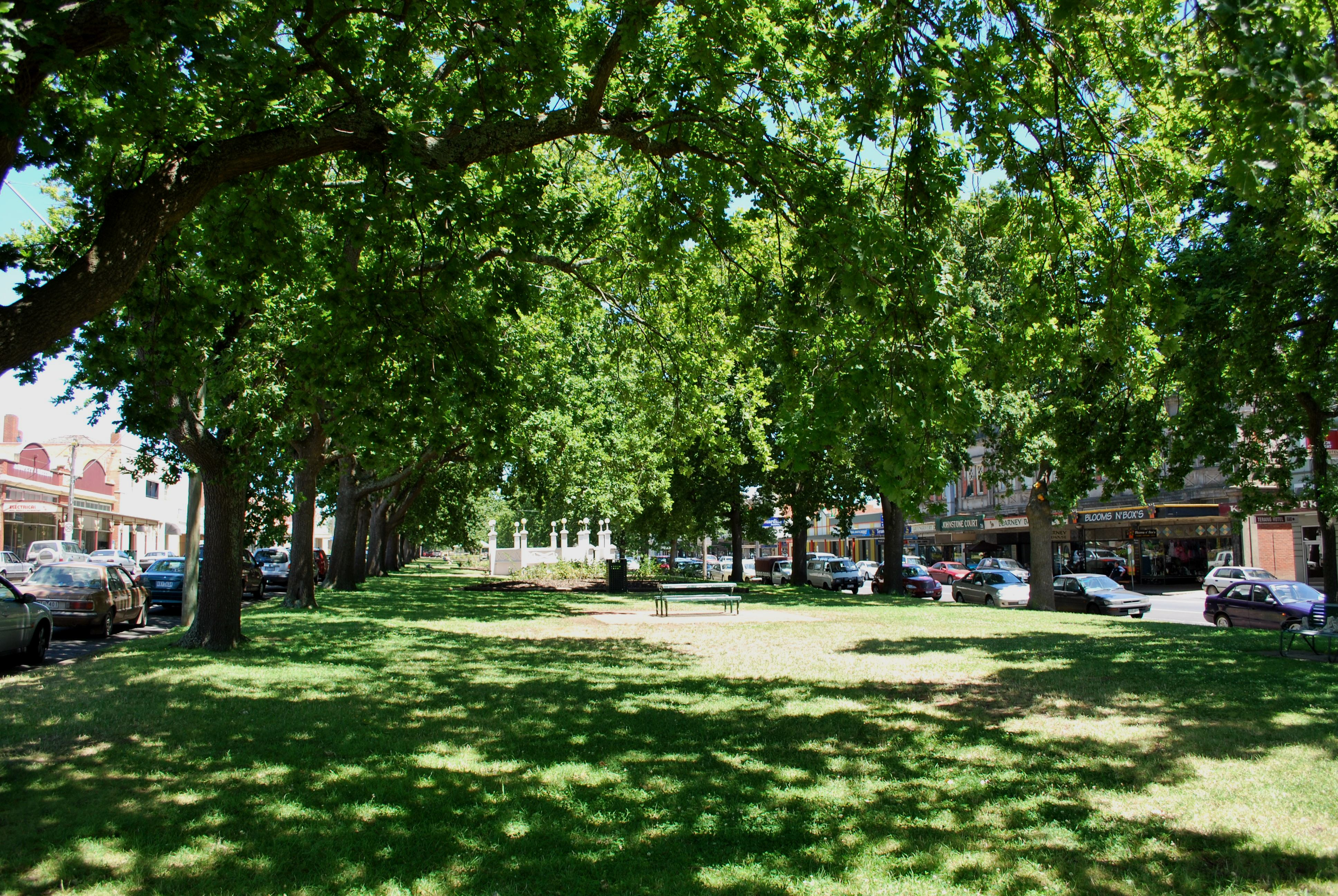 A park in the main street (Princes Highway) of Terang, Victoria